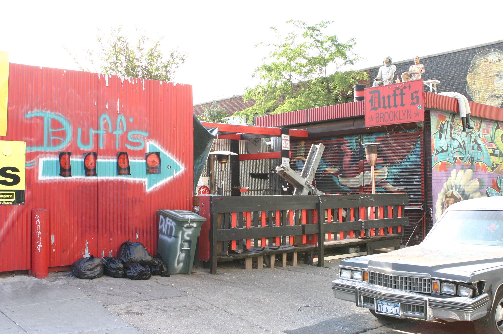 This photo is of Wikis Take Manhattan goal code J6, Duff's Brooklyn.